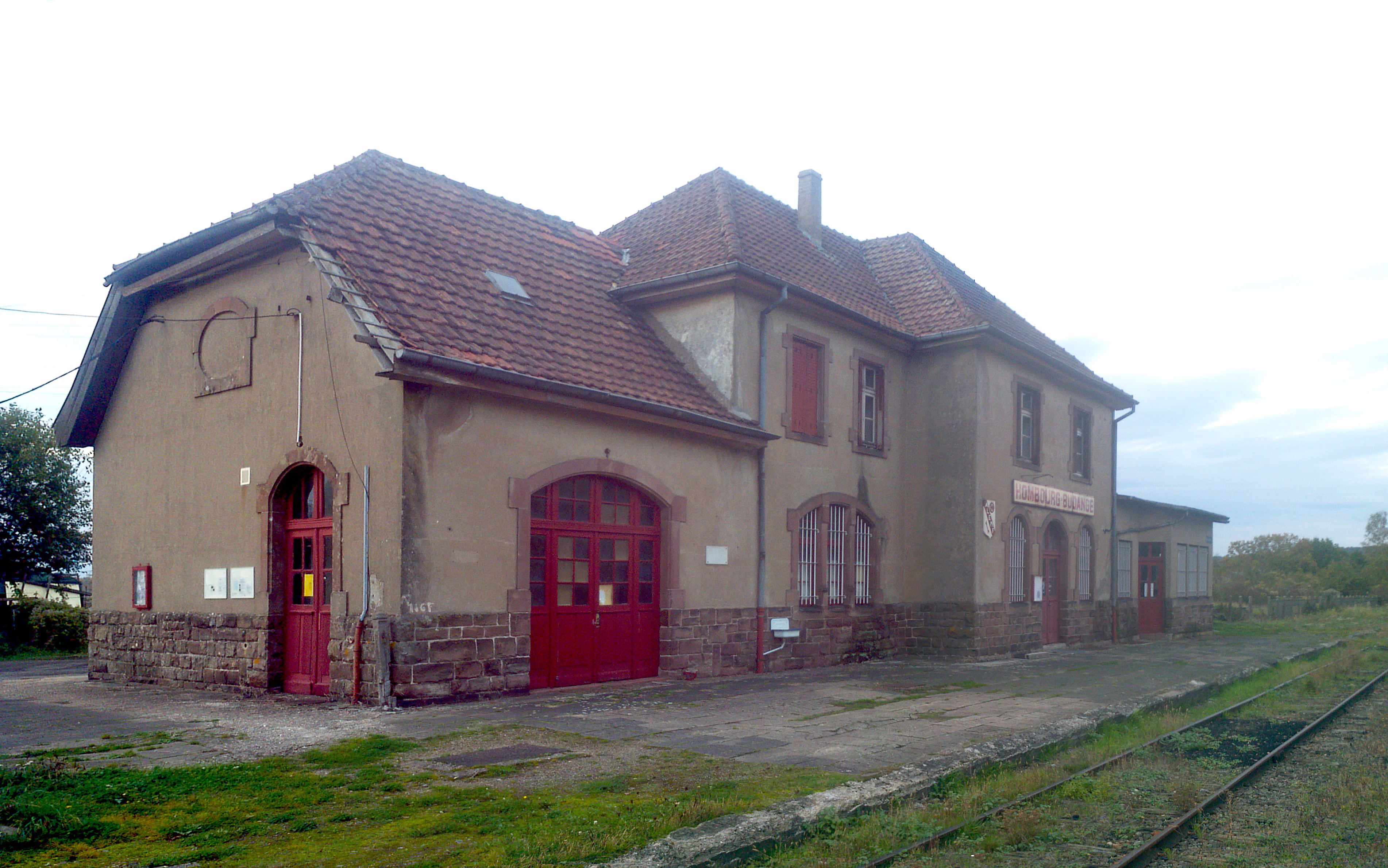 Railway Station, track-side, at Hombourg-Budange, France